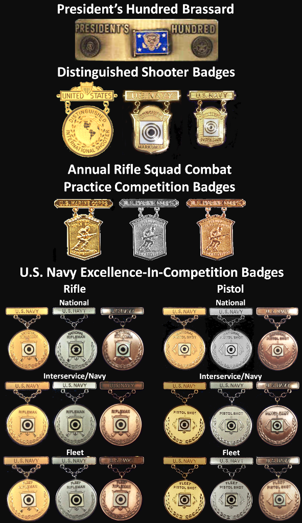 Graphic of the U.S. Navy's Marksmanship Competition Badges that are authorized for wear on U.S. Navy service uniforms